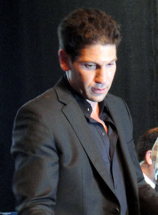 Actor Jon Bernthal at the PaleyFest 2011.